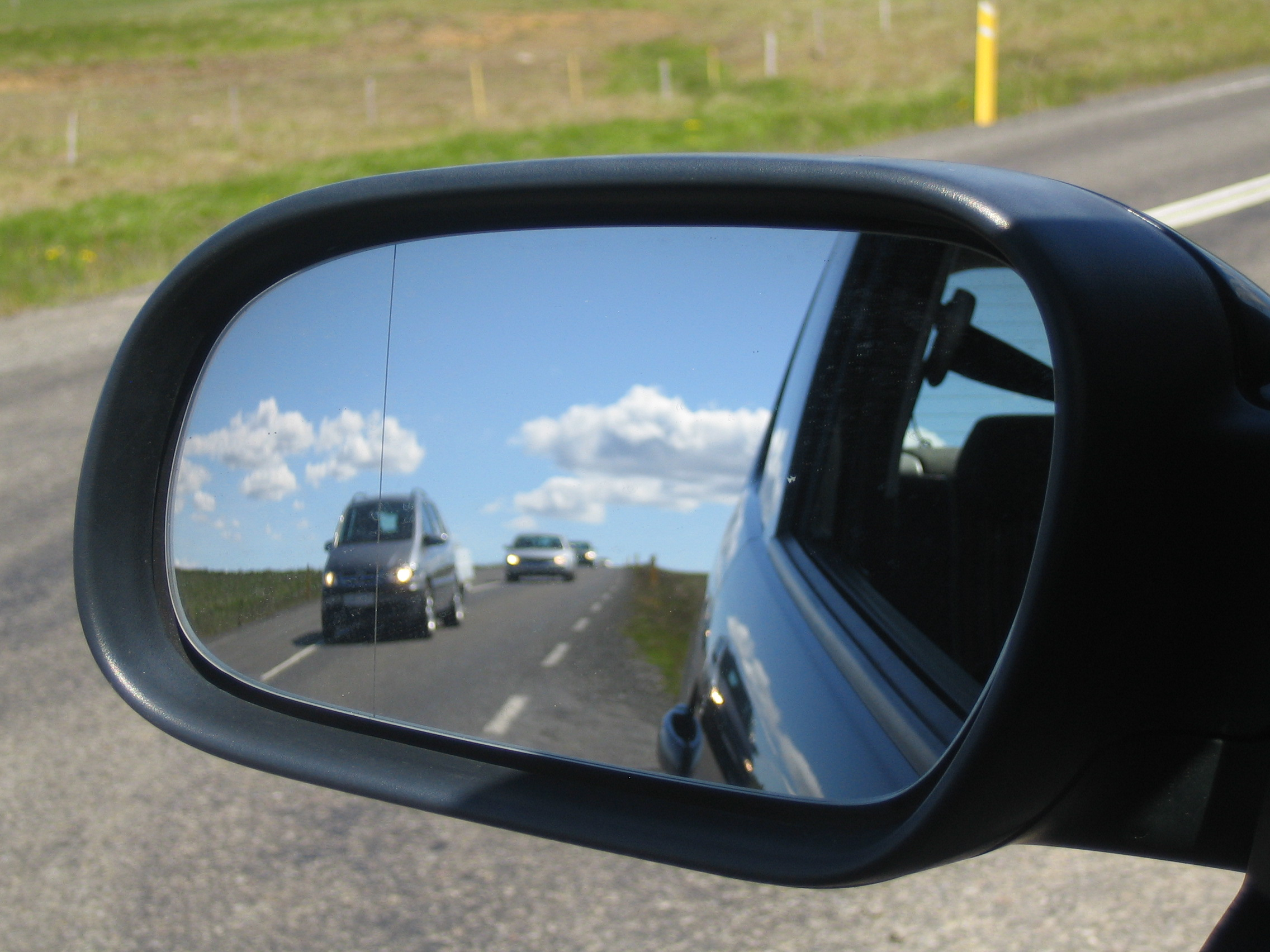 Wing mirror VW Fox